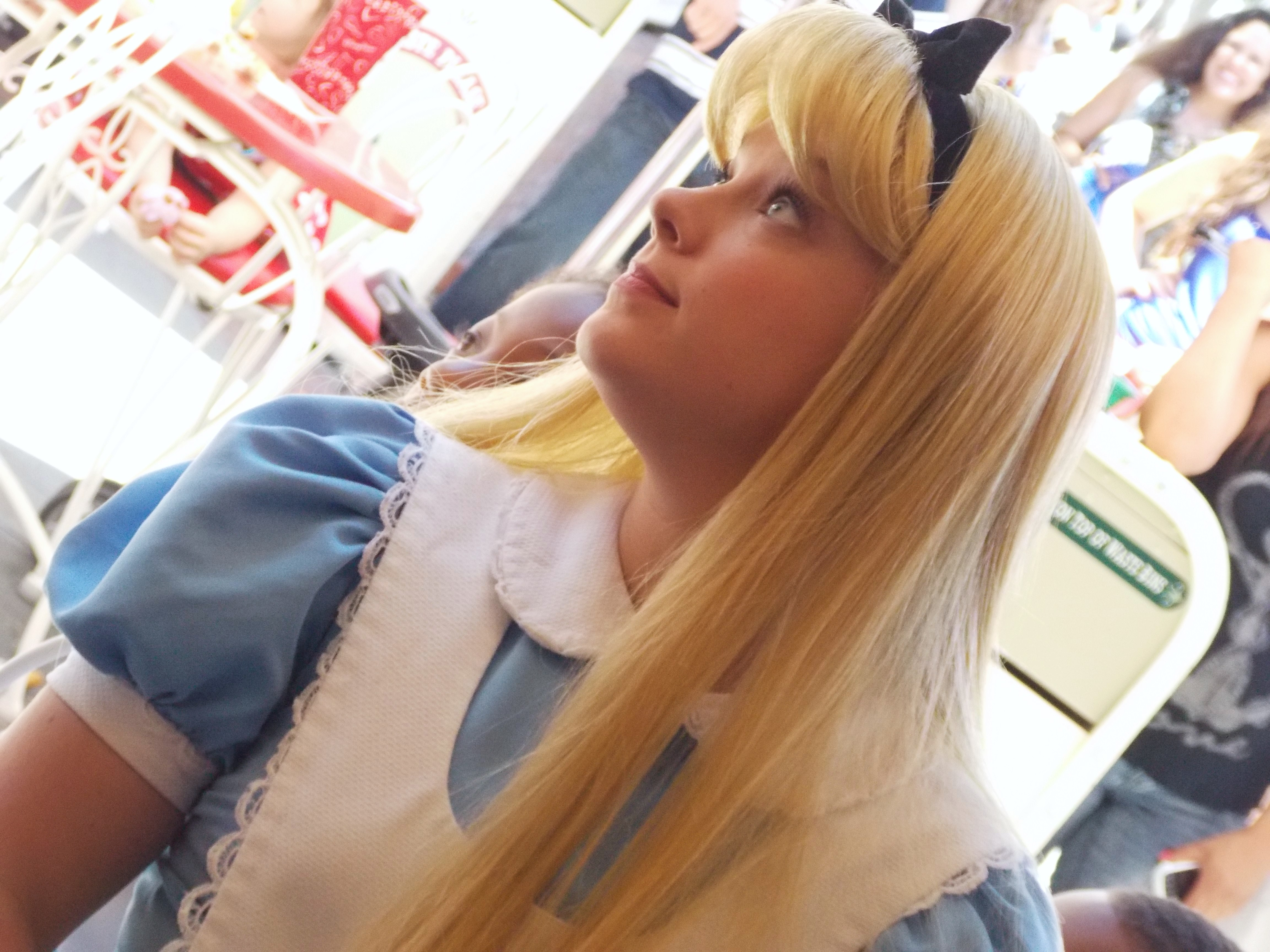 Actress at Disneyland poses as Alice from Alice in Wonderland.